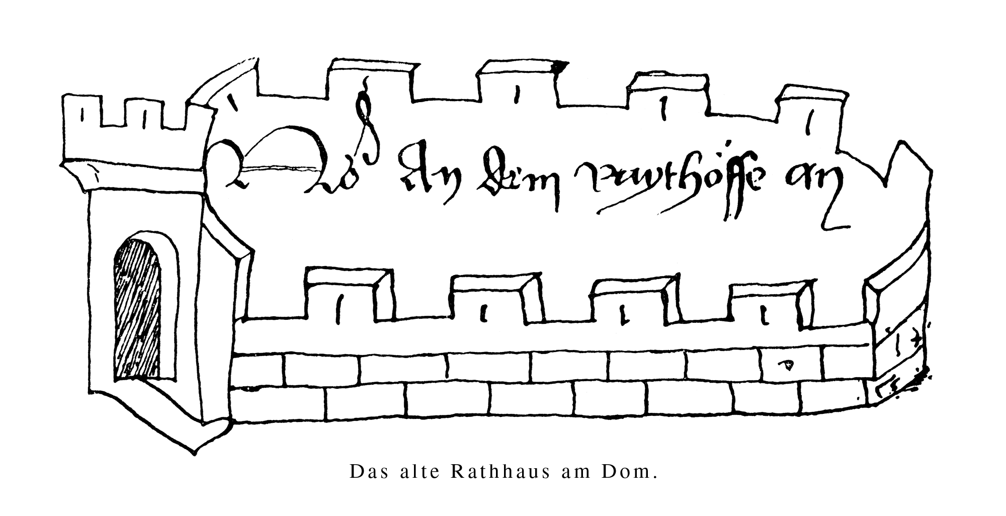 Frankfurt on the Main: Old city hall which stood in place of the cathedral's spire as schematically depicted in the medieval fiscal book of 1405